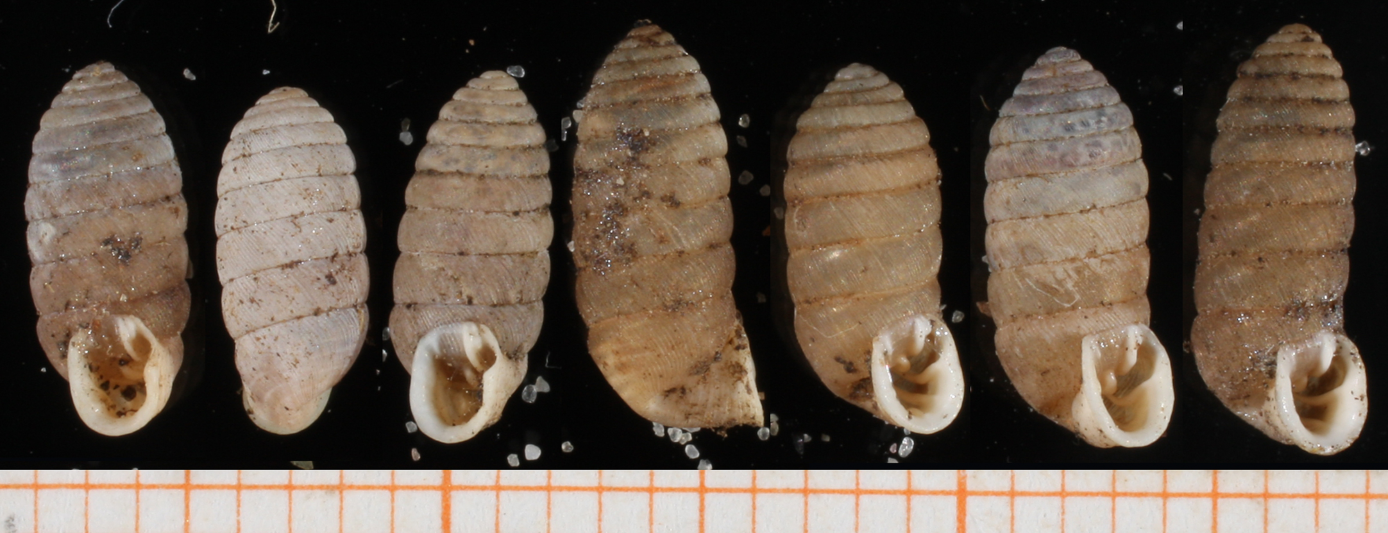 Abida cylindrica (Michaud, 1829), Chondrinidae, Pulmonata, Gastropoda, Locality: Spain, Sant Estare de Llemena